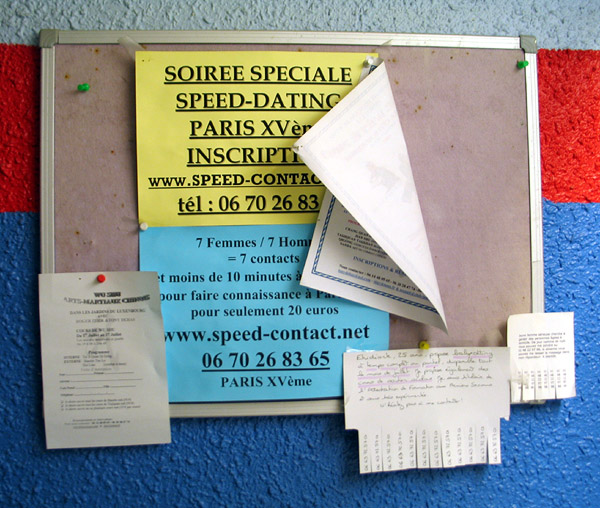 Speed dating in Paris